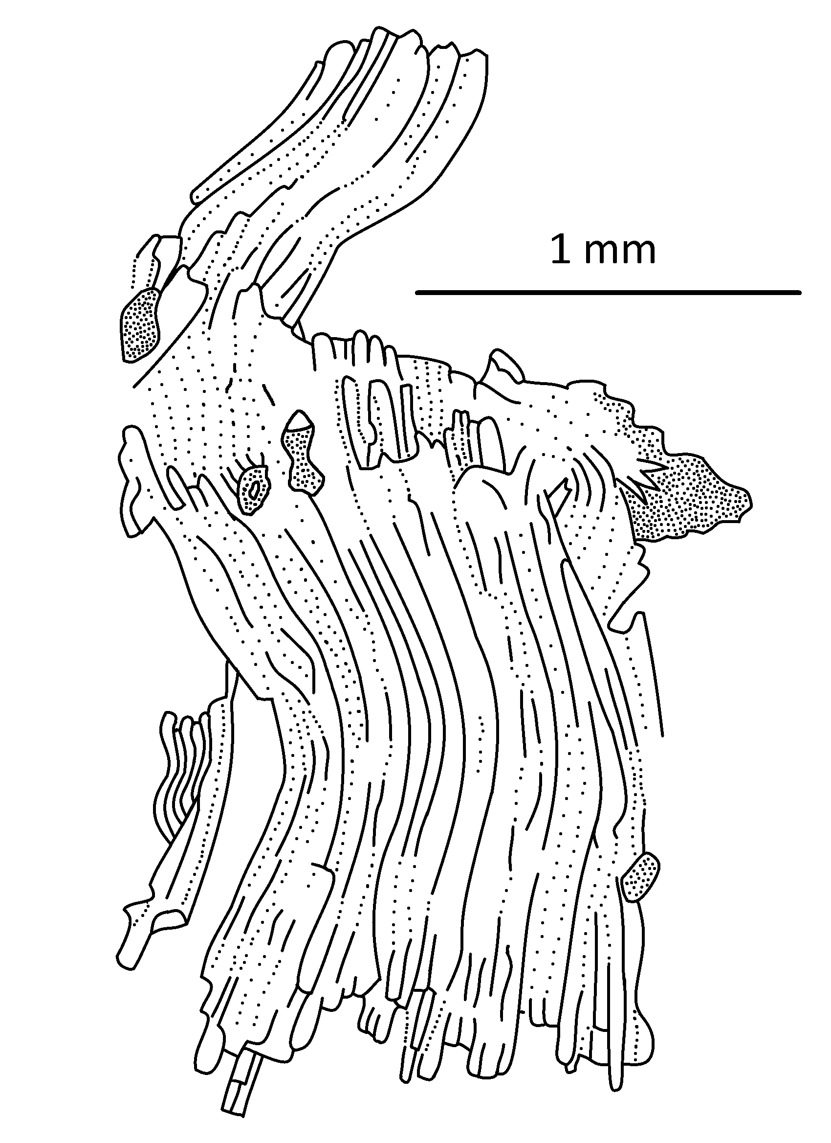 Camera lucida restoration of the left book-gill of the third segment of the eurypterid species Onychopterella augusti, based on Braddy, Aldridge, Gabbott & Theron, 1999.